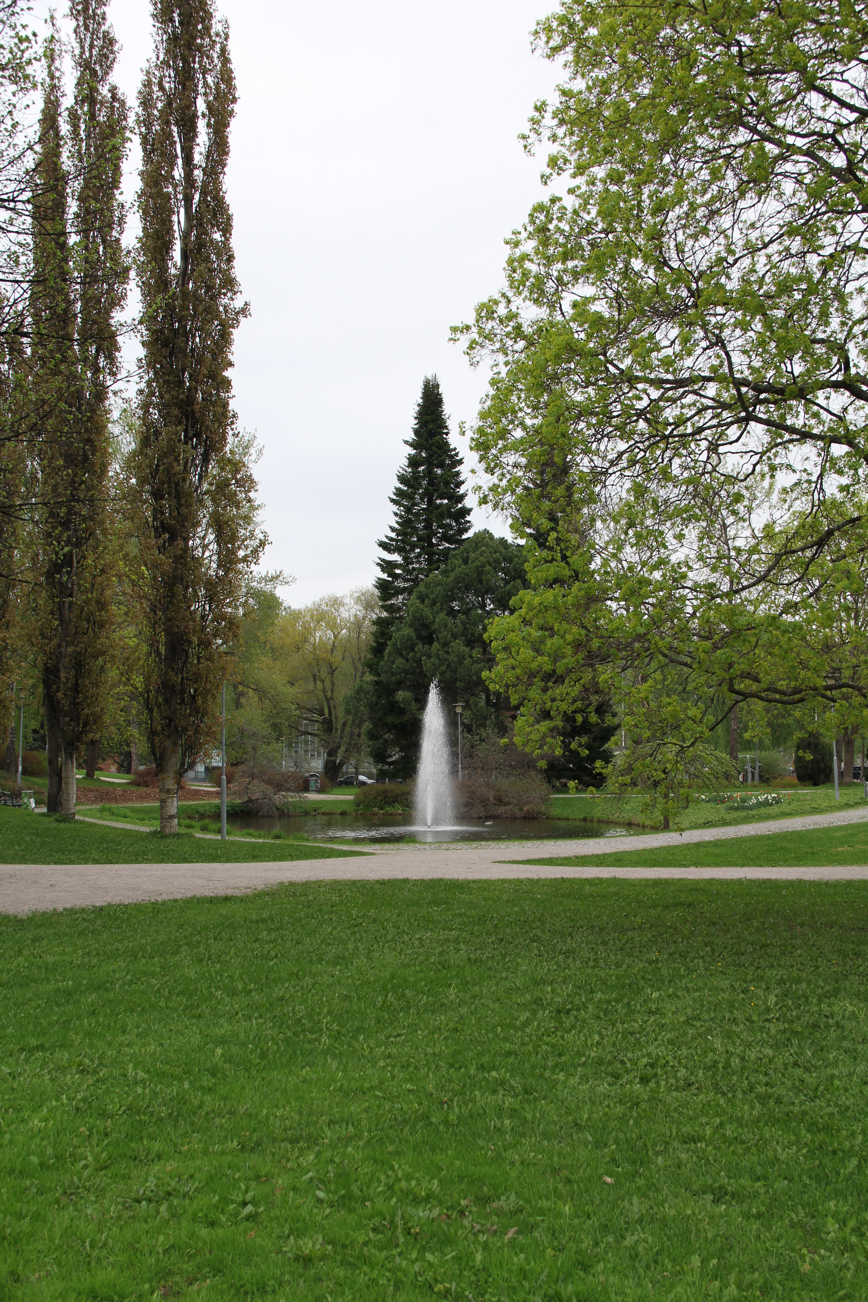 Fellmaninpuisto, a park in Lahti, Finland